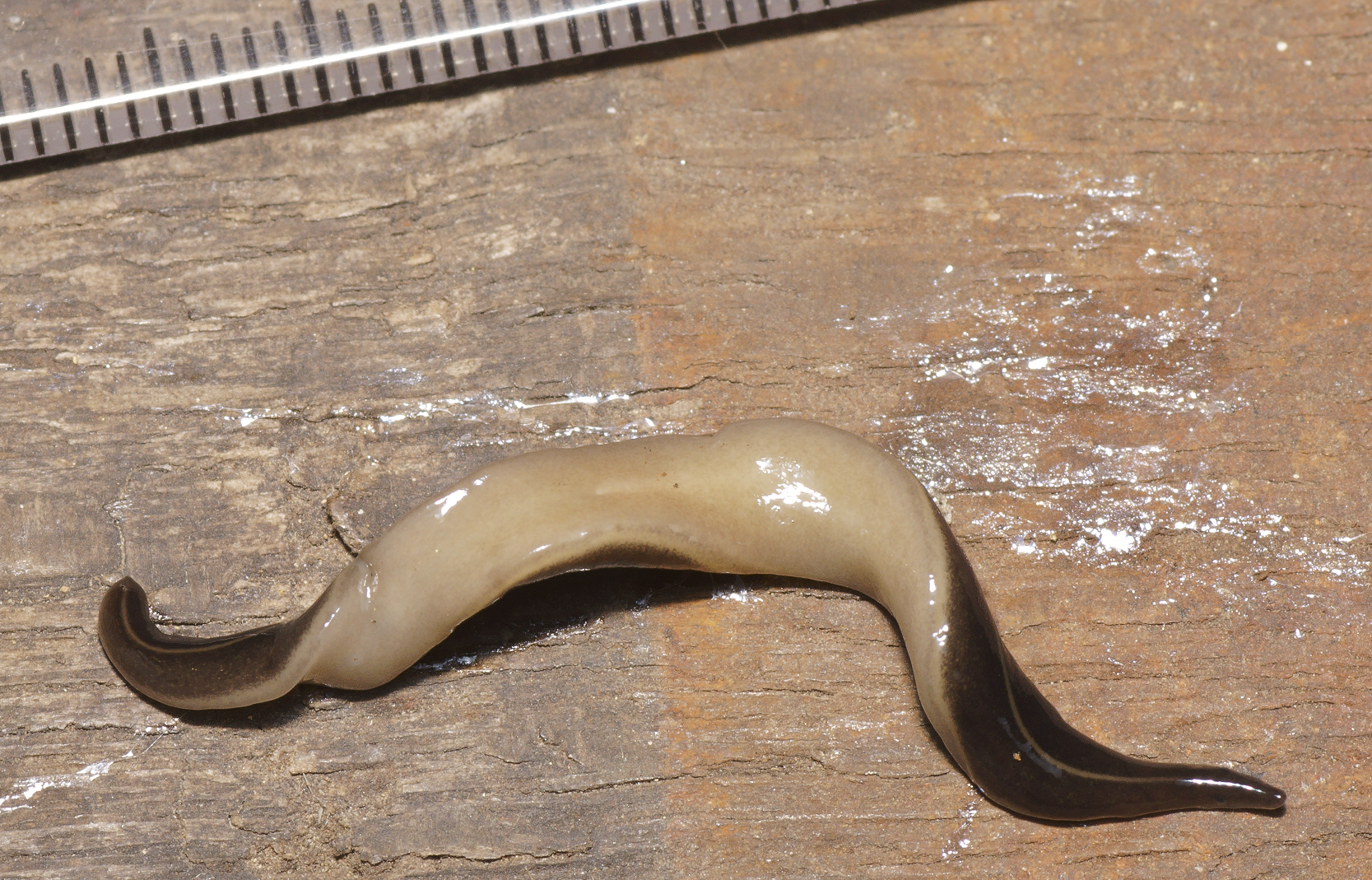 Platydemus manokwari de Beauchamp, 1963. Partial ventral view, showing the cream and faint grey marginal stripe, and the creeping sole that is slightly paler along the median line. Scale: millimeters.